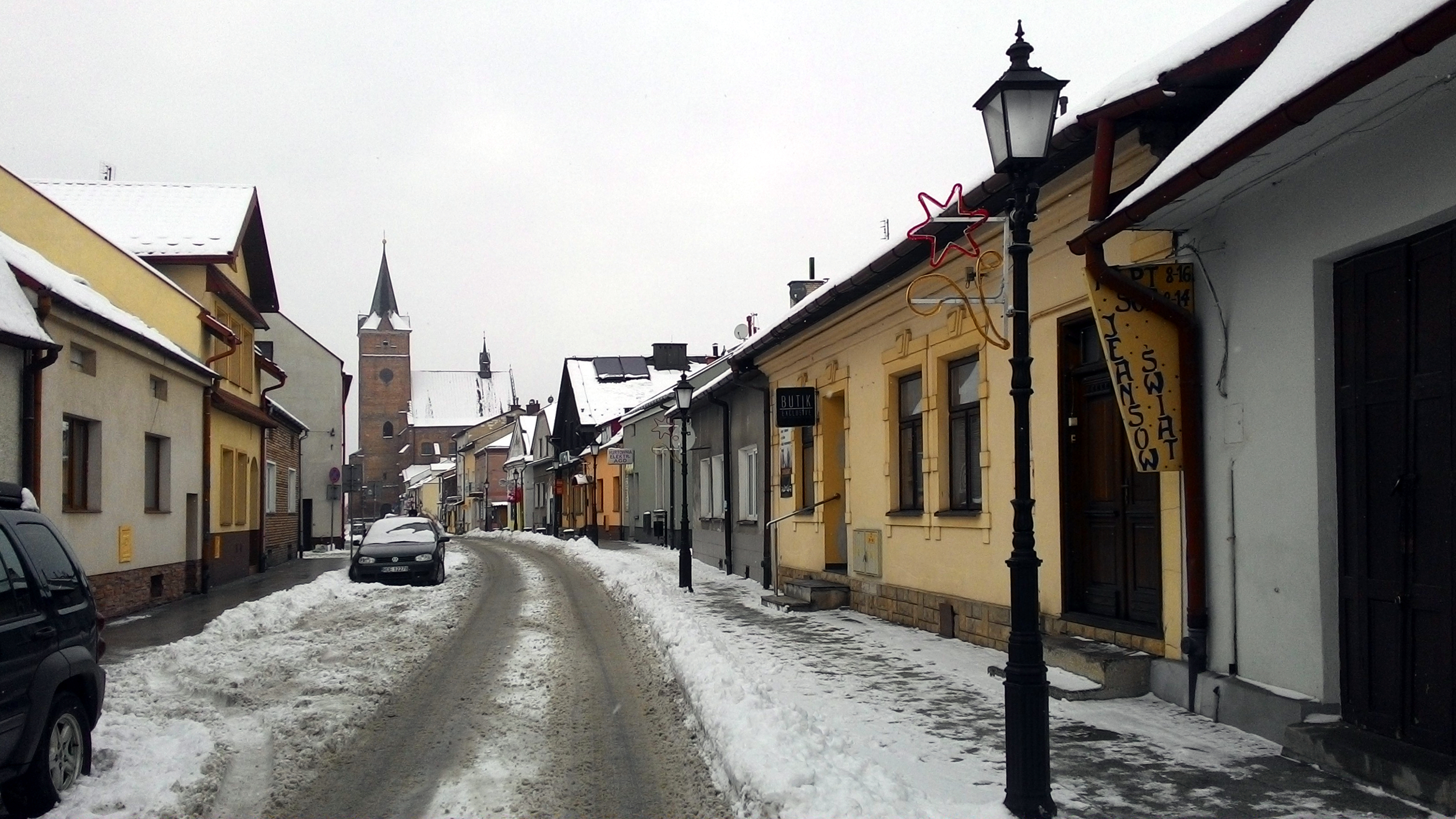 Historical houses in Węgierska (Hungarian) Street in Pilzno, Poland.